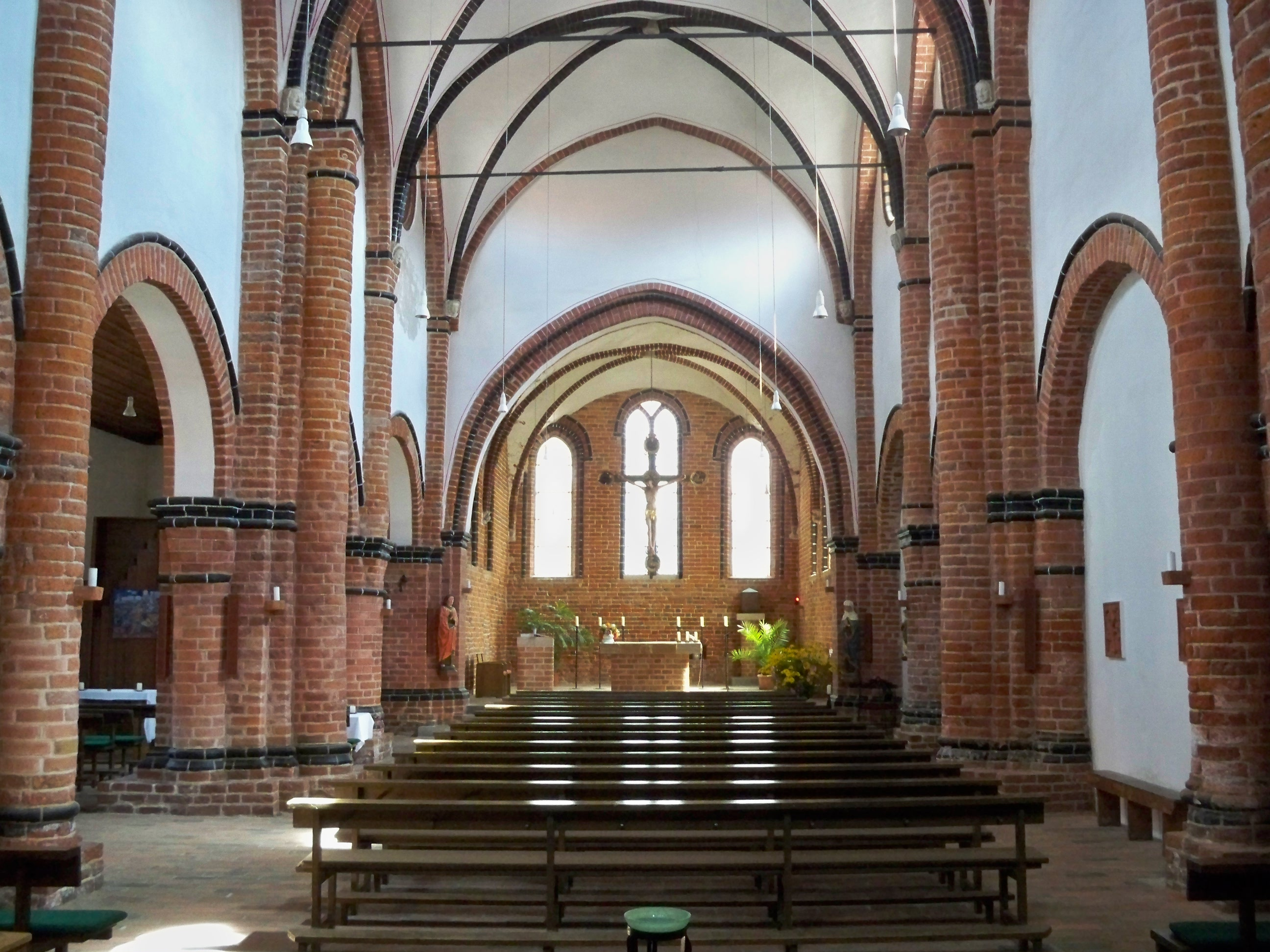 Salzwedel, Saxony-Anhalt, Lorenz church, interior facing altar